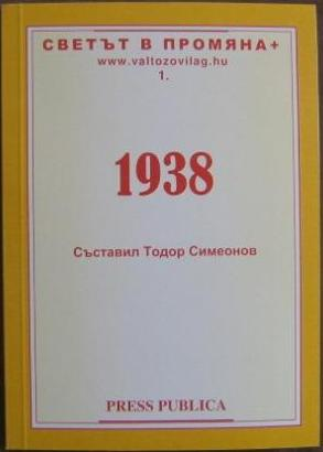 Chronicle of 1938 - Changing World in Bulgarian